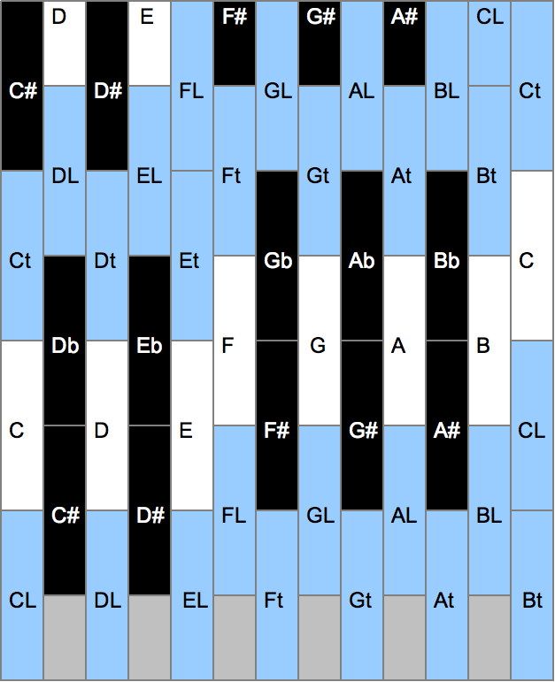 Schematic representation of the keyboard design of the Fokker organ. Section from one manual. See: [1] for more. References Fokker, Adriaan Daniël; tr. Leigh Jardine New Music with 31 Notes, Volume 5 of Orpheus-Schriftenreihe zu Grundfragen der Musik, Bonn: Vertrag fur Systematische Musikwissenschaft GmbH, 1975, pp. 96 John S. Allen (1997). The general keyboard in the age of MIDI. Fokker-organ. Huygens-Fokker Foundation - center for microtonal music. (History, Keyboard, Technical specifications, Literature, Photos after renovation) (See also: MIDI specifications / Renovation project / Compositions in 31-tone tuning)